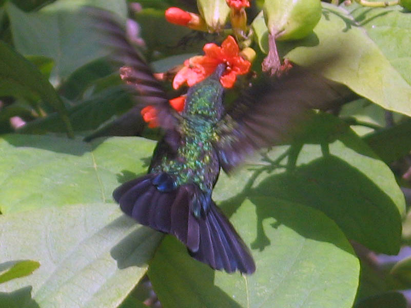 Green Mango Anthracothorax viridis hummingbird, Vieques Island, Puerto Rico